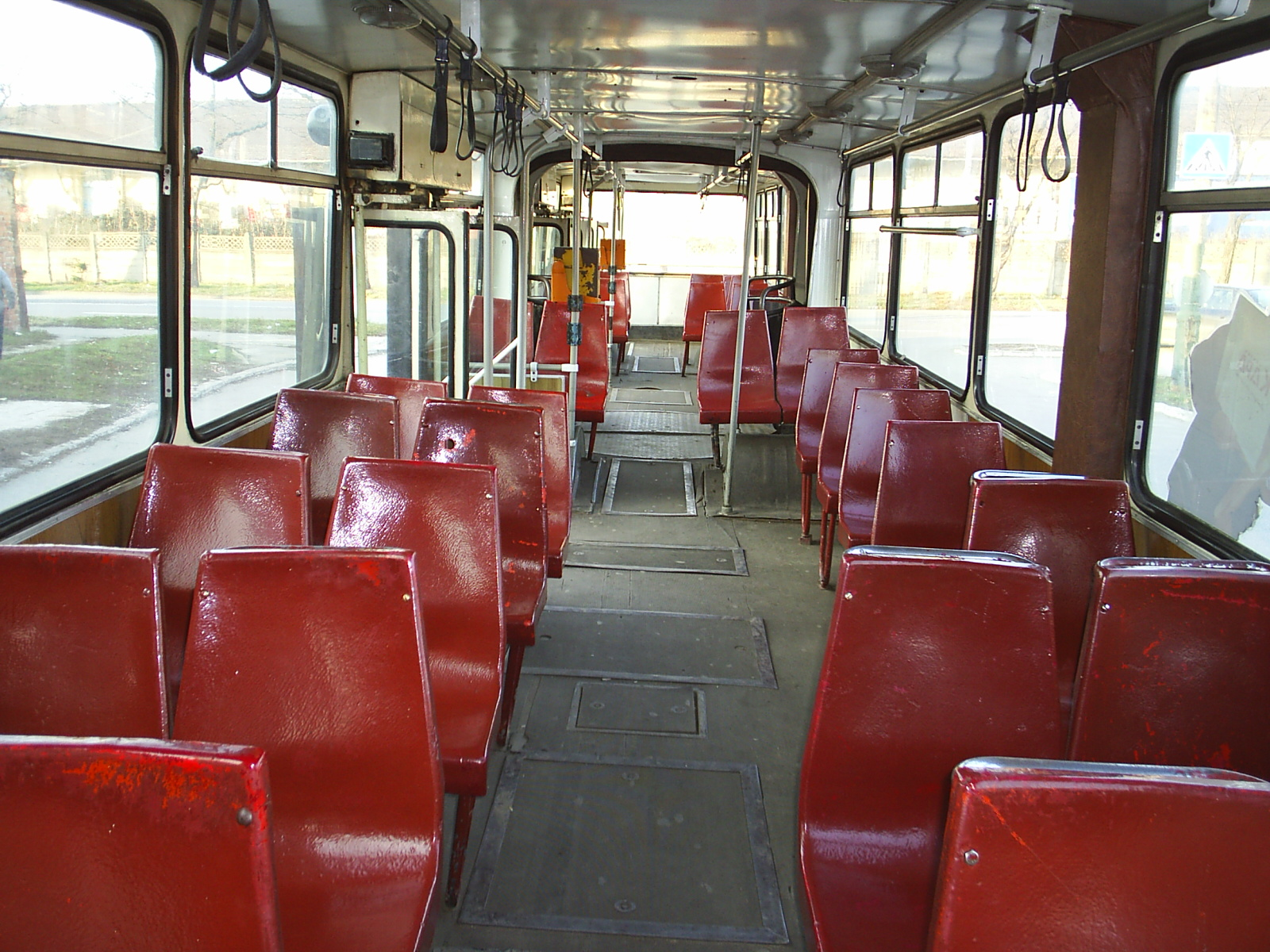 RATT Timisoara Rocar trolleybus 2